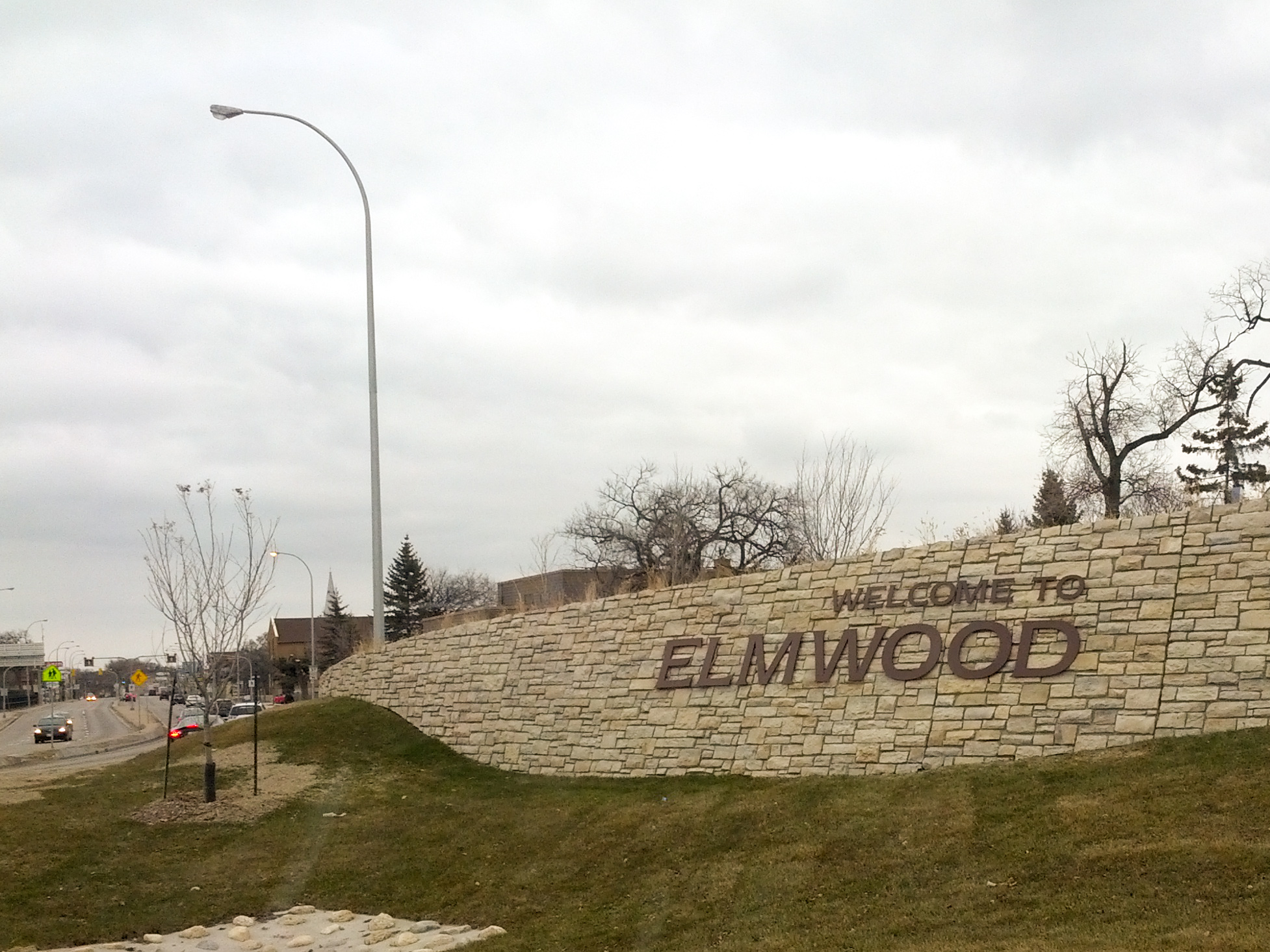 Welcome to Elmwood sign on embankment in Winnipeg, Manitoba